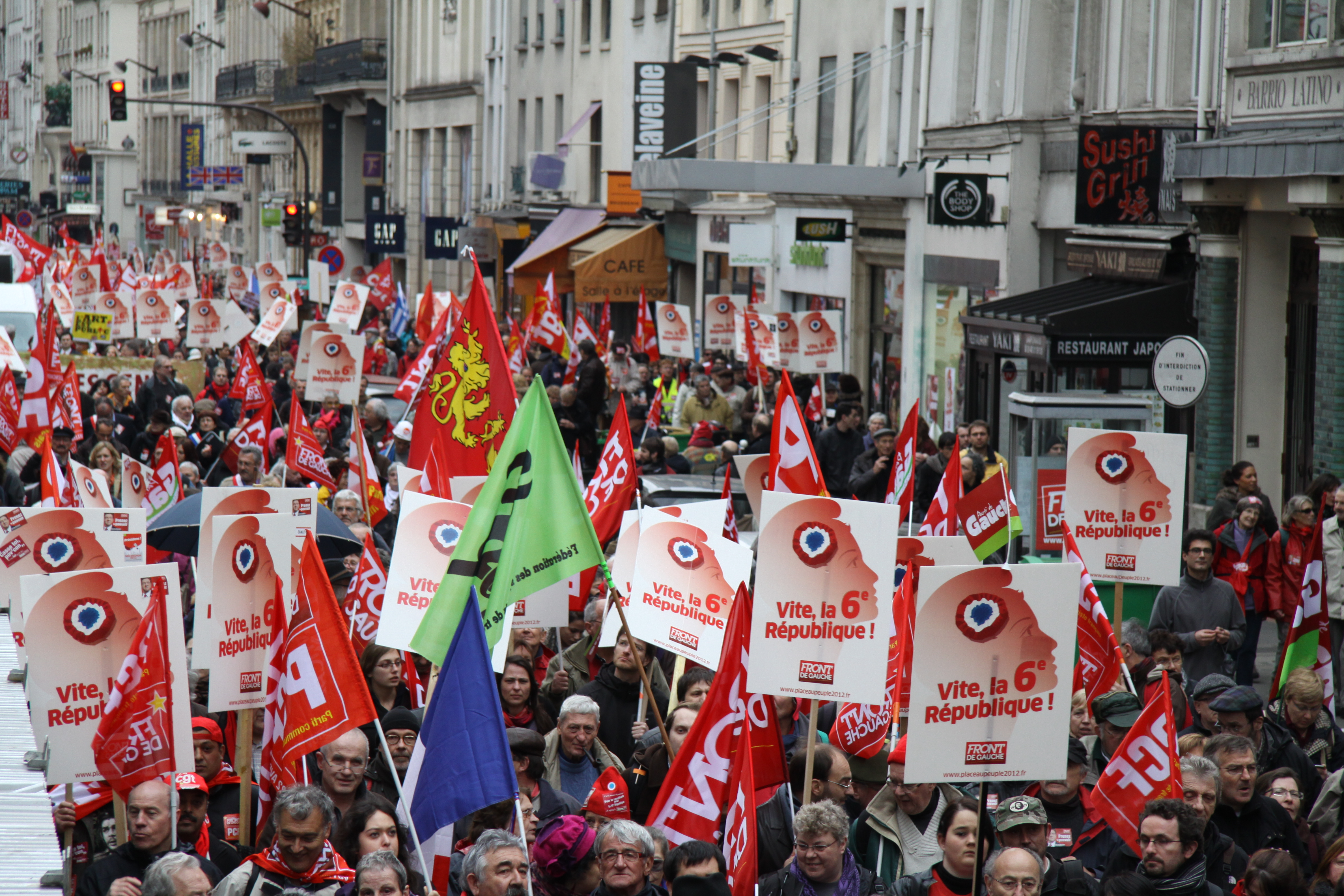 French Communist Party's meeting for the 2012 French presidential election, Paris, France